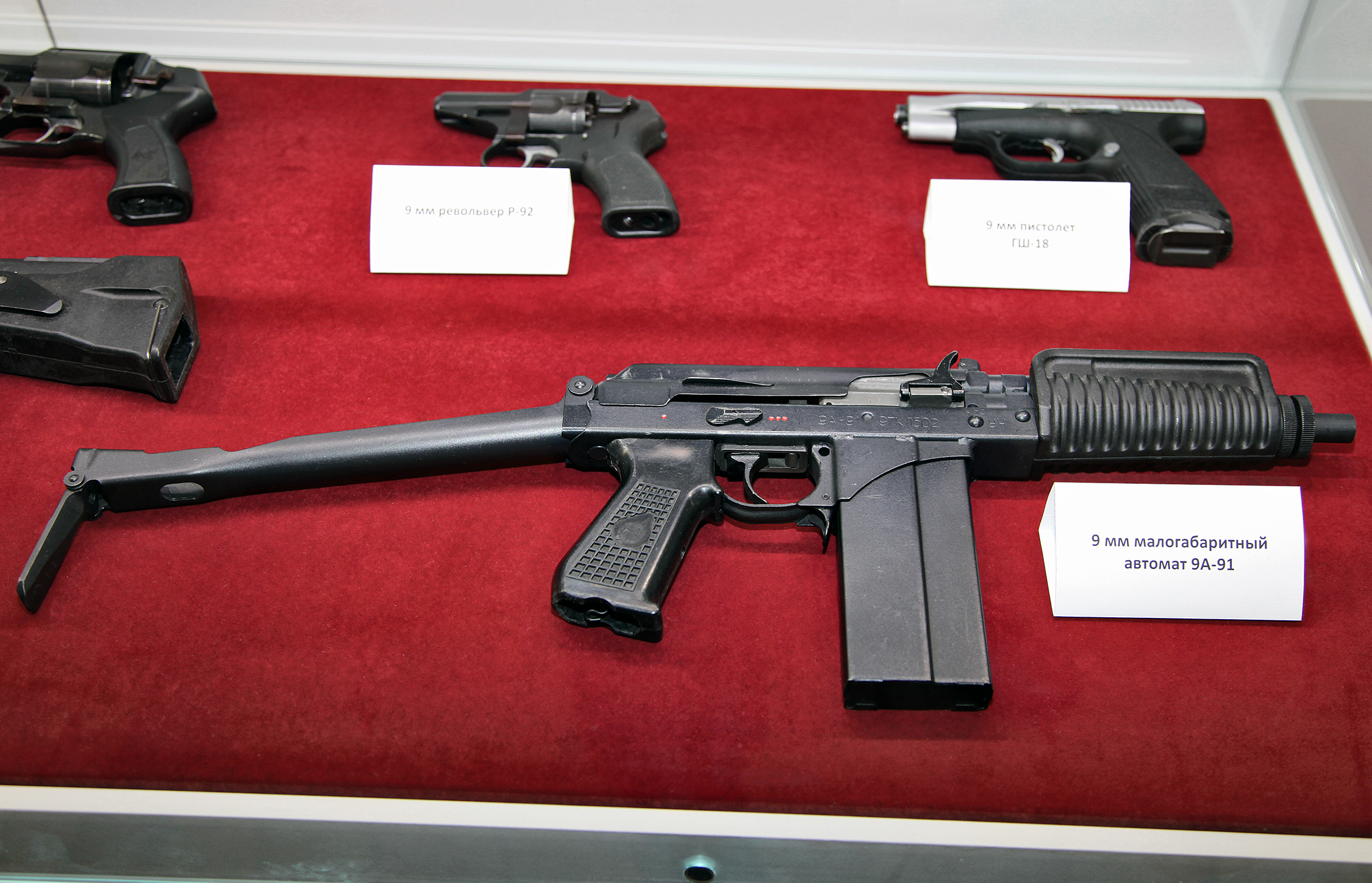 9A-91 compact assault rifle